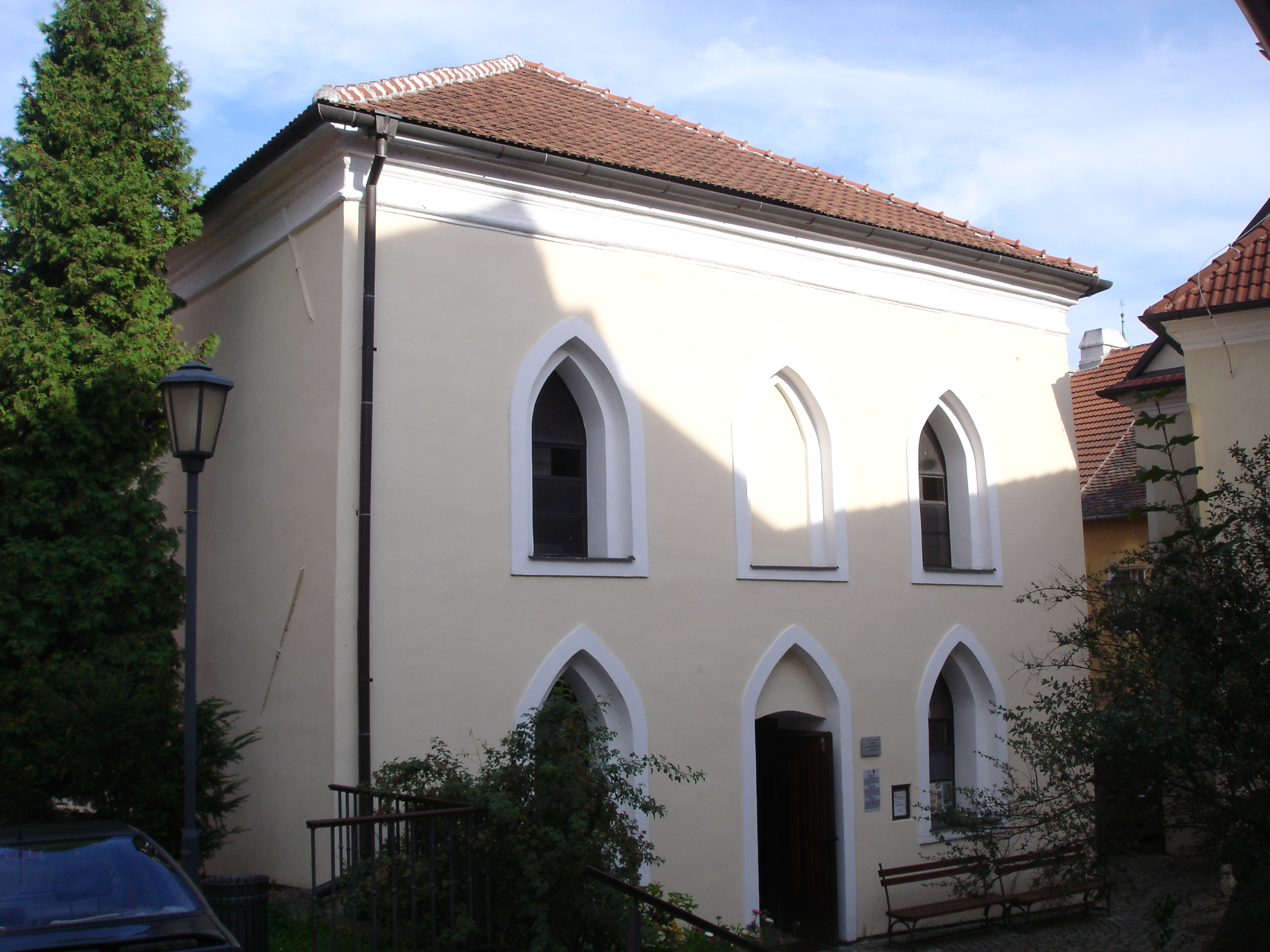 Old (Front) synagogue in Třebíč jewish quarter.